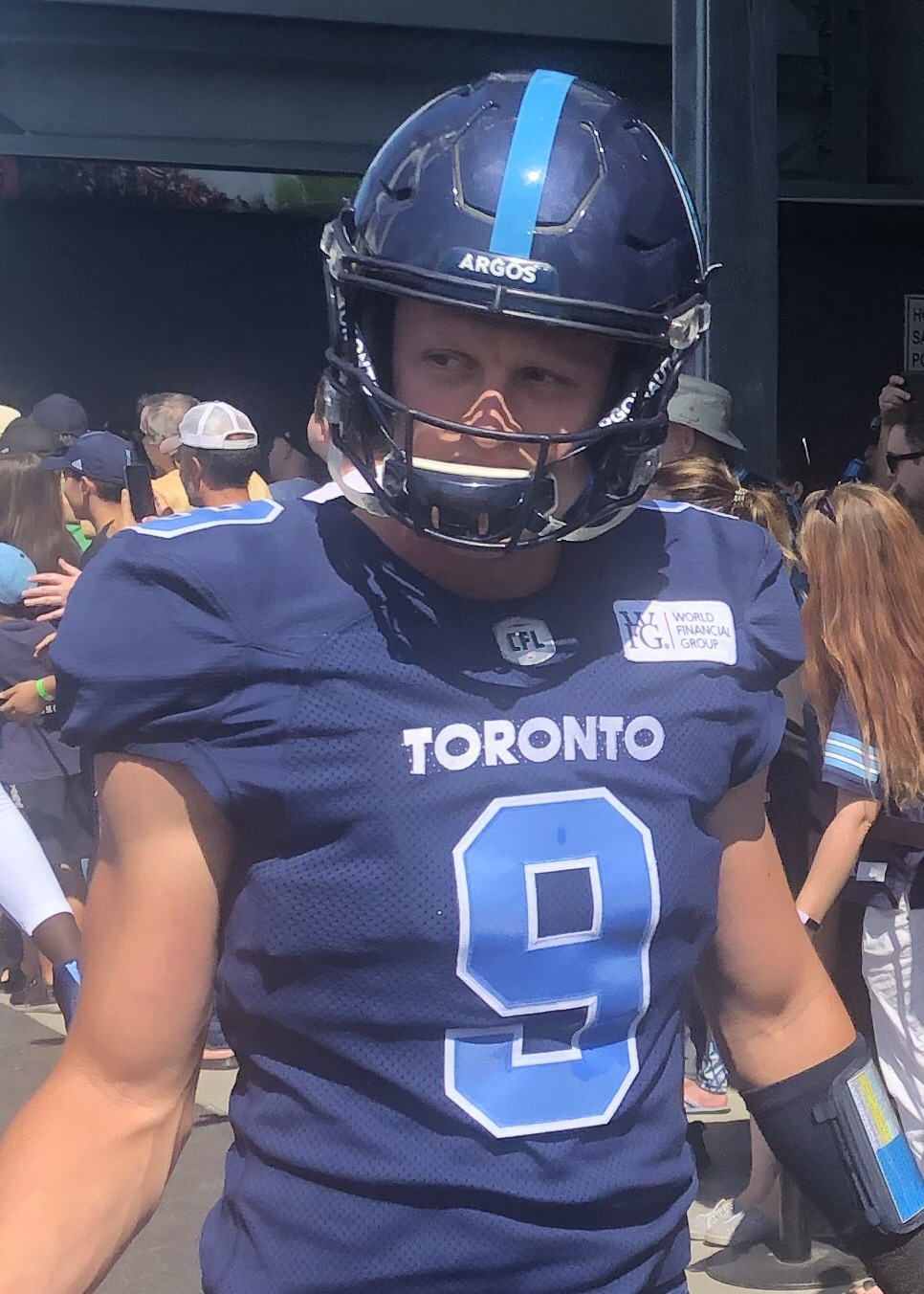 Dakota Prukop, quarterback for the Toronto Argonauts.